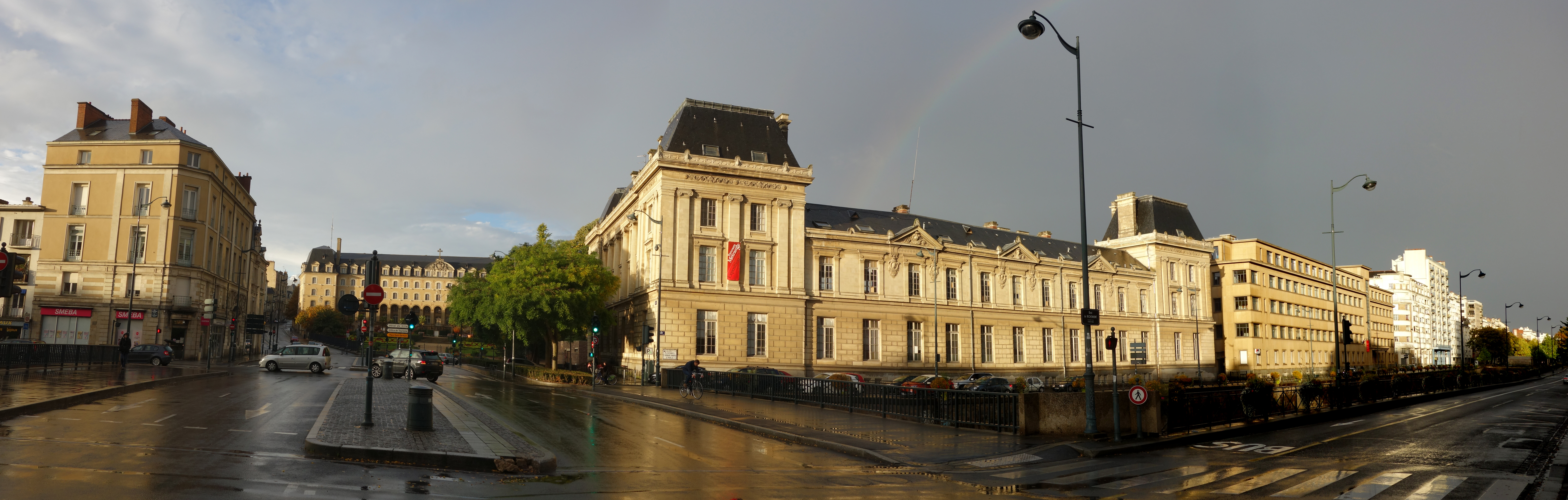 The Hotel Pasteur of the city of Rennes, former Faculty of Sciences, in October 2016